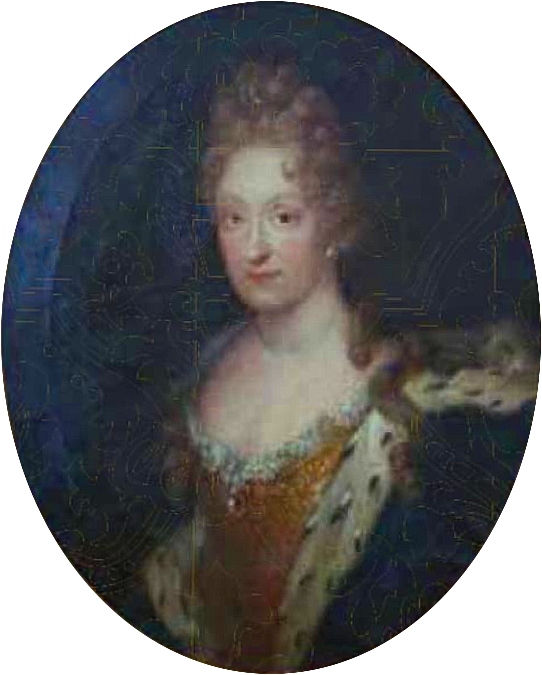 Elisabeth Juliane counterpart